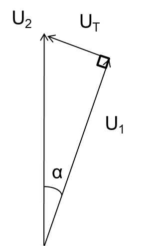 Vector diagram of a quadrature boost transformer